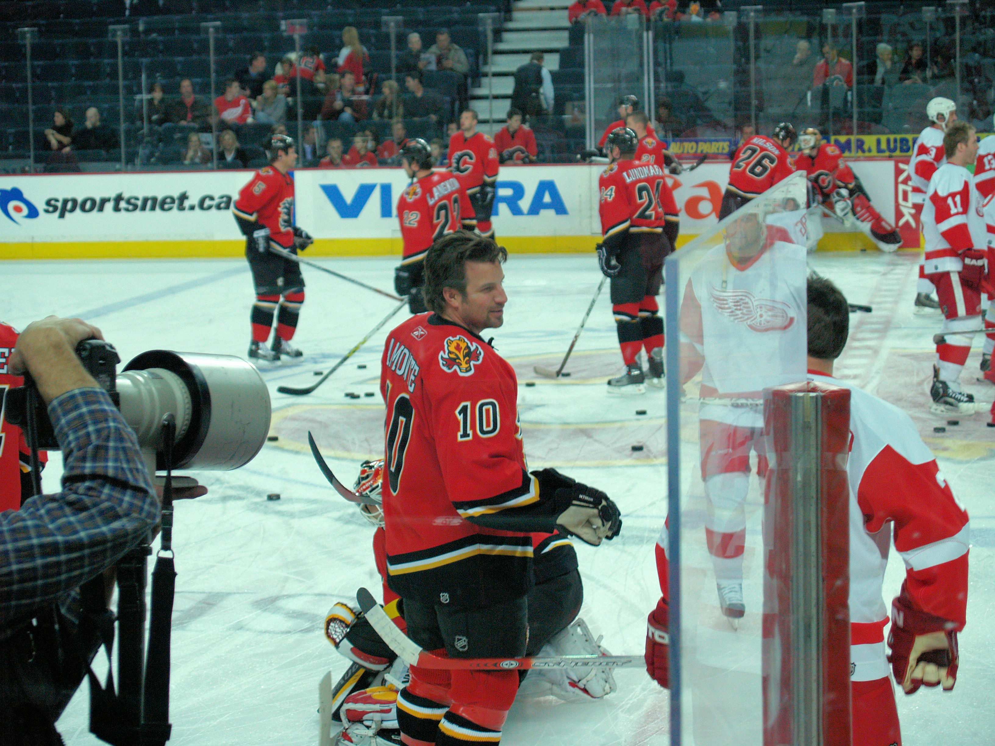 Warmup before a Flames/Red Wings game, November 17, 2007, Calgary, Alberta